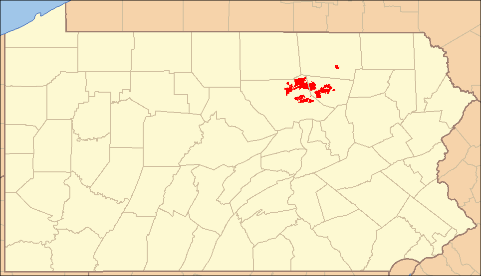 Locator Map of Loyalsock State Forest, Pennsylvania, United States